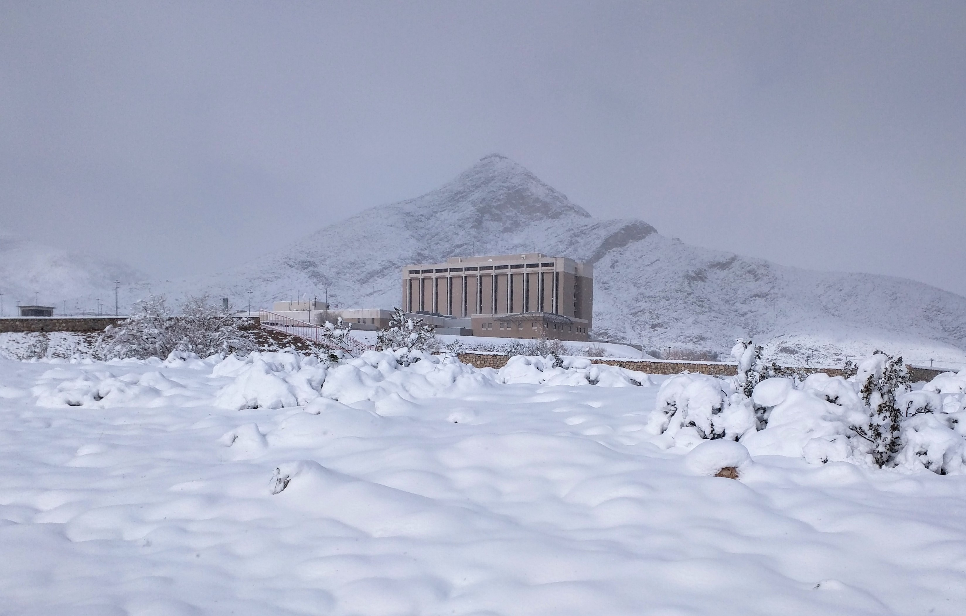 William Beaumont Army Medical Center, with snow from winter storm Goliath, 27 Dec. 2015